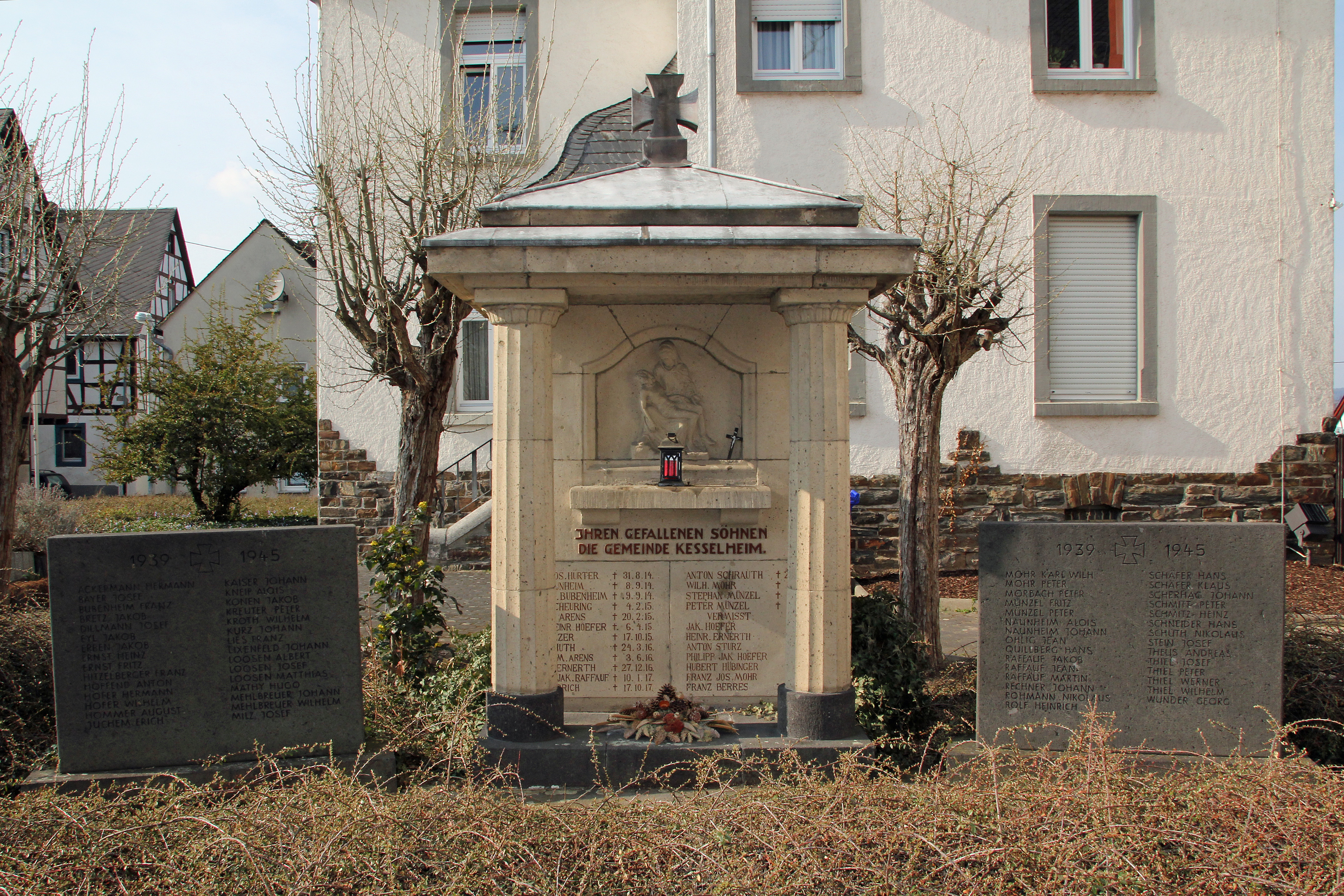 St. Martin church in Koblenz-Kesselheim